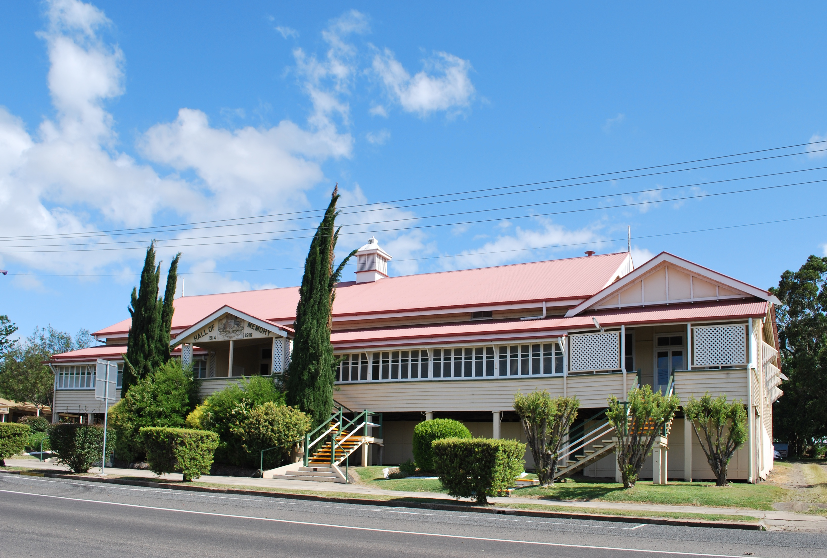 Hall of Memory at Goomeri, Queensland, Queensland Heritage Register item 15416